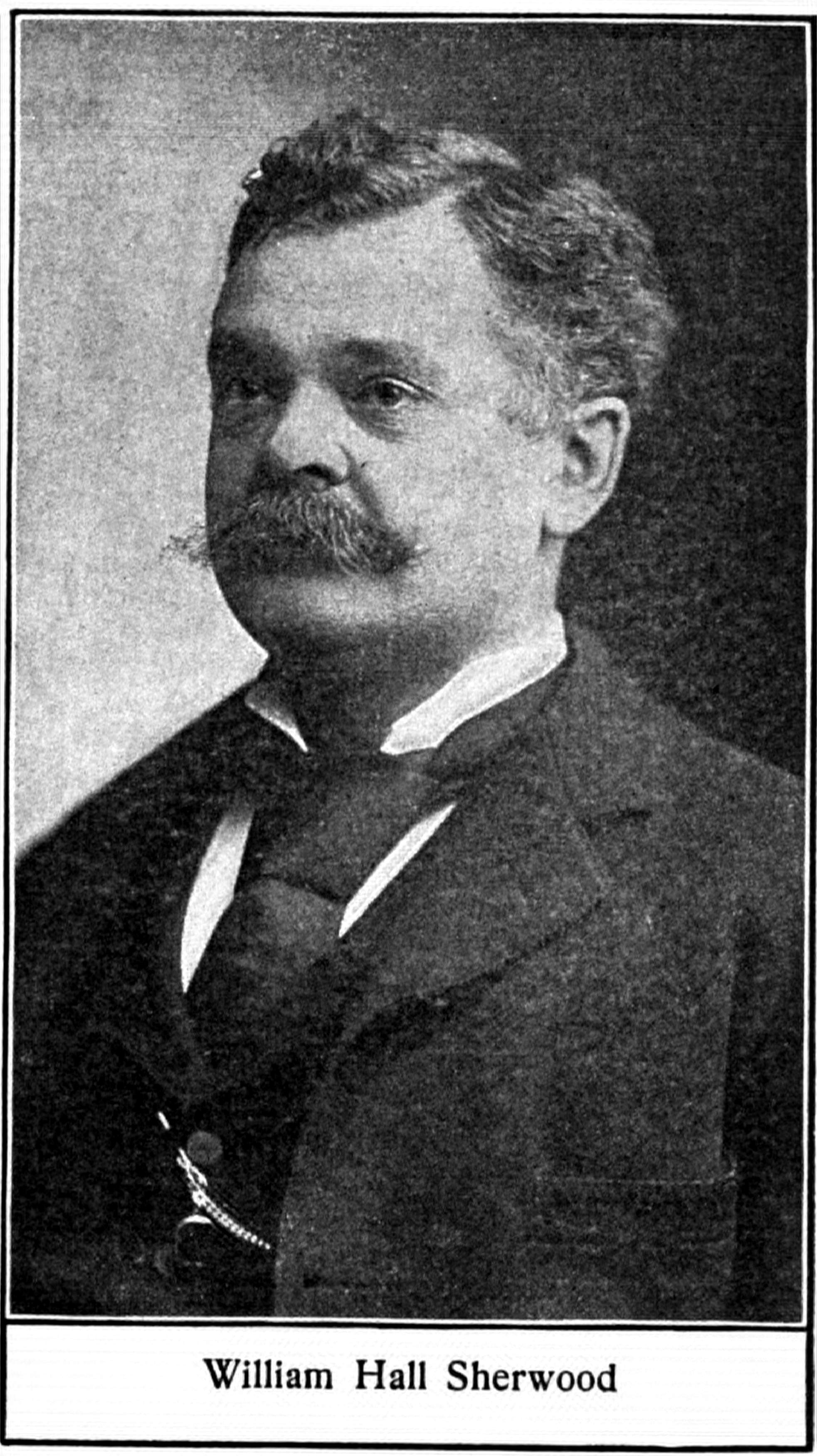 William Hall Sherwood (1854 – 7 January 1911)[1] was a nineteenth-century American pianist and music educator.